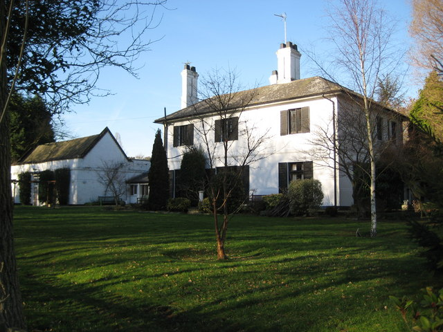 Debden Green: Debden House